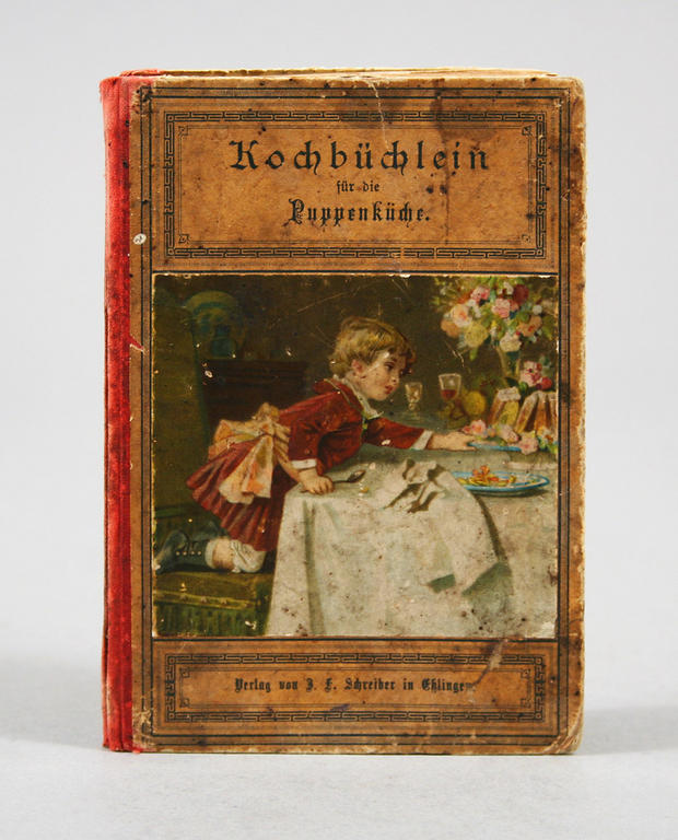 book cover Kochbüchlein für die Puppenküche by Julie Bimbach, 21st edition, 1884